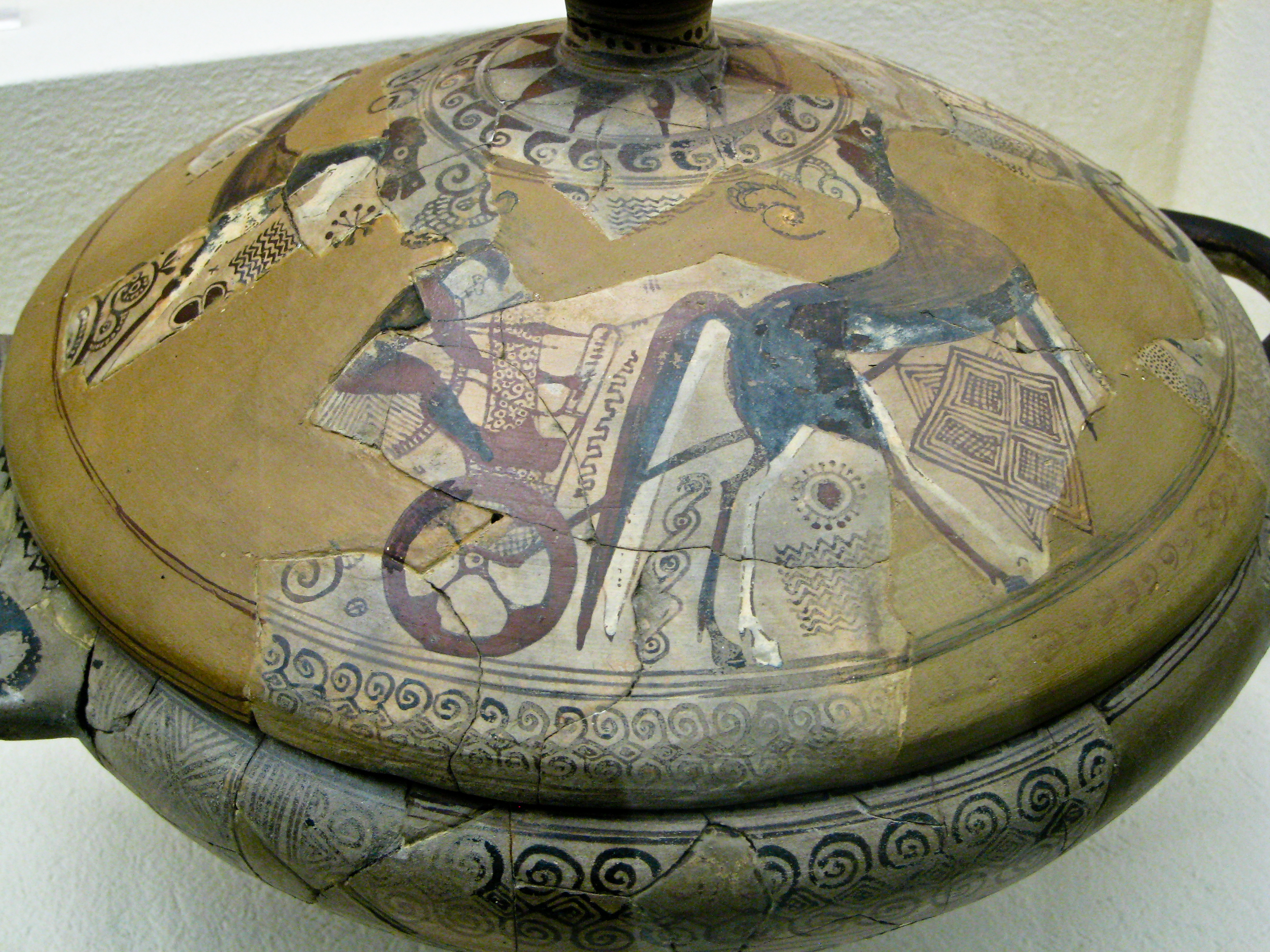 Lid pyxis with depiction of chariot race. Kerameikos Archaeological Museum in Athens, 700-675 BC.